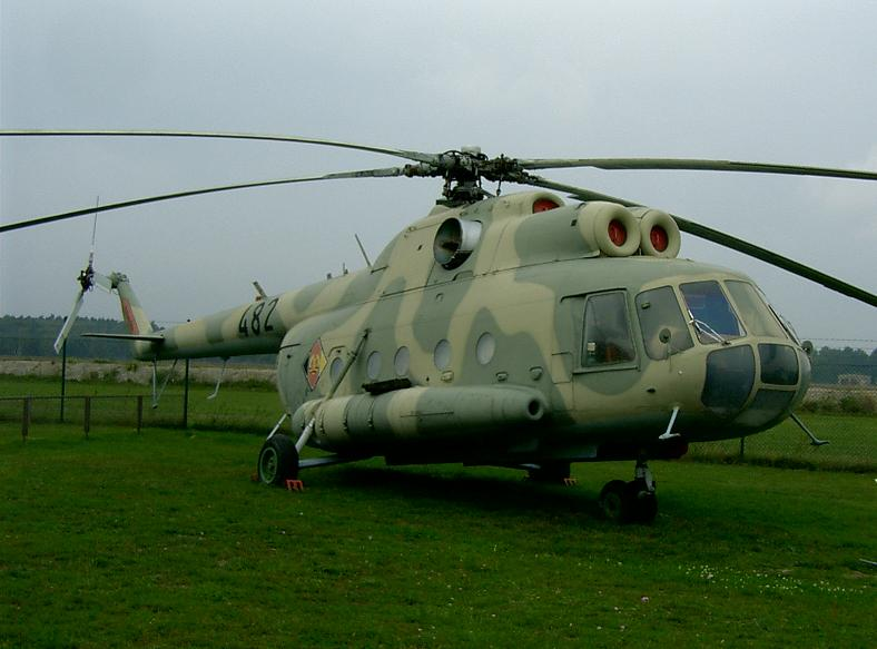 National People's Army Helicopter Mil Mi-9 of the HSFA-3/KHG-3, Germany.